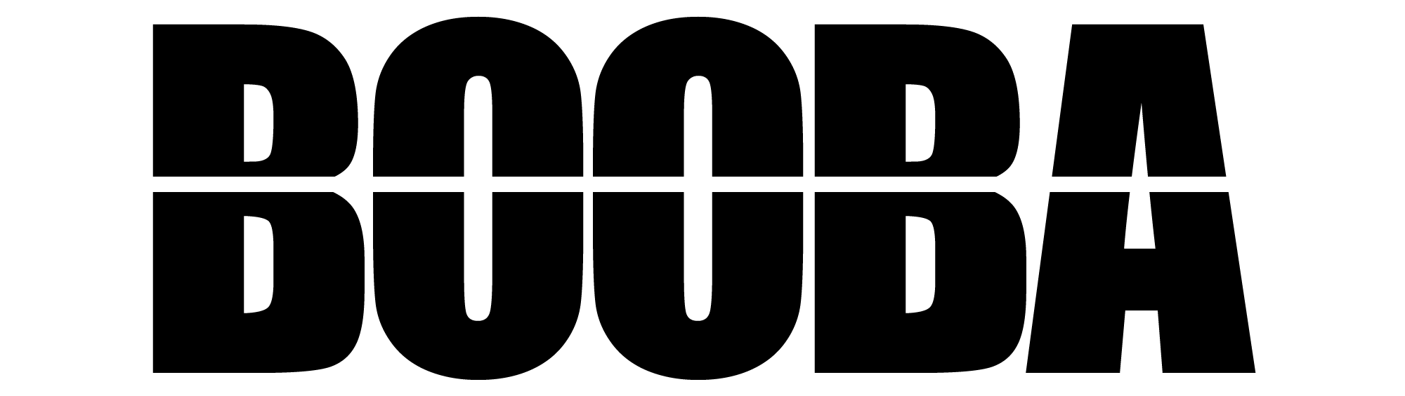 Booba Logo